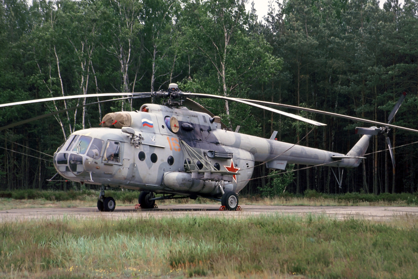 One of the Hip-Hs of the 113th OSAE at Sperenberg. Photo taken during the final Russian open day and my last photo trip to East Germany. 27 May 1994.